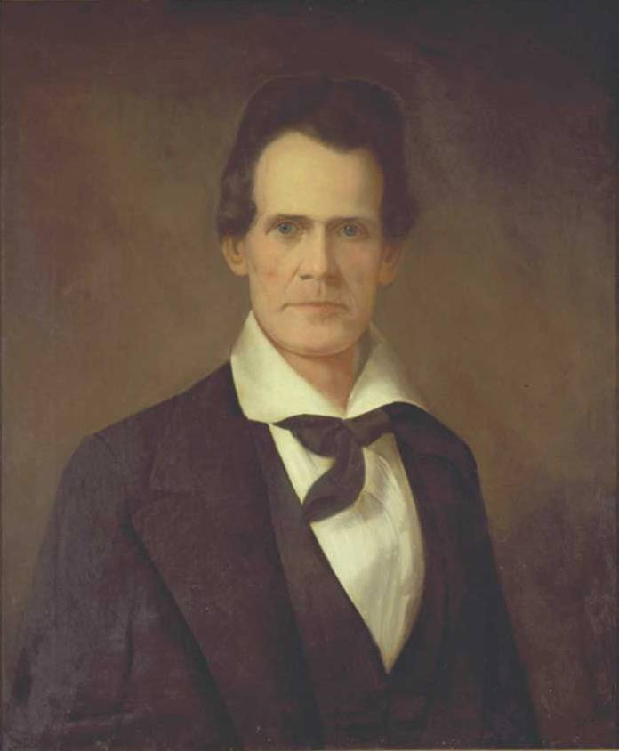 William Trousdale (1790–1872), American politician and soldier.